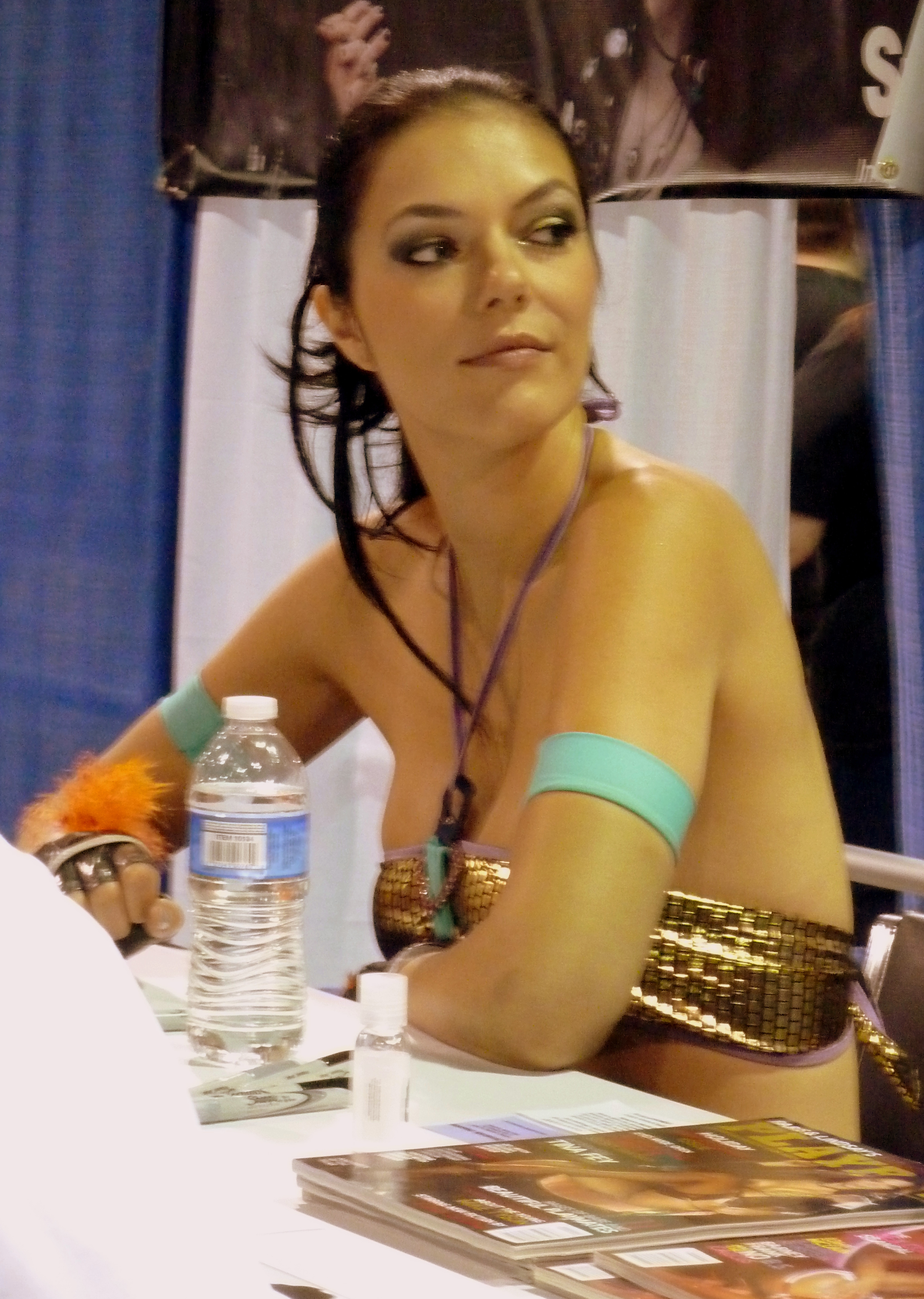 Adrianne Curry as Christie Monteiro from Tekken